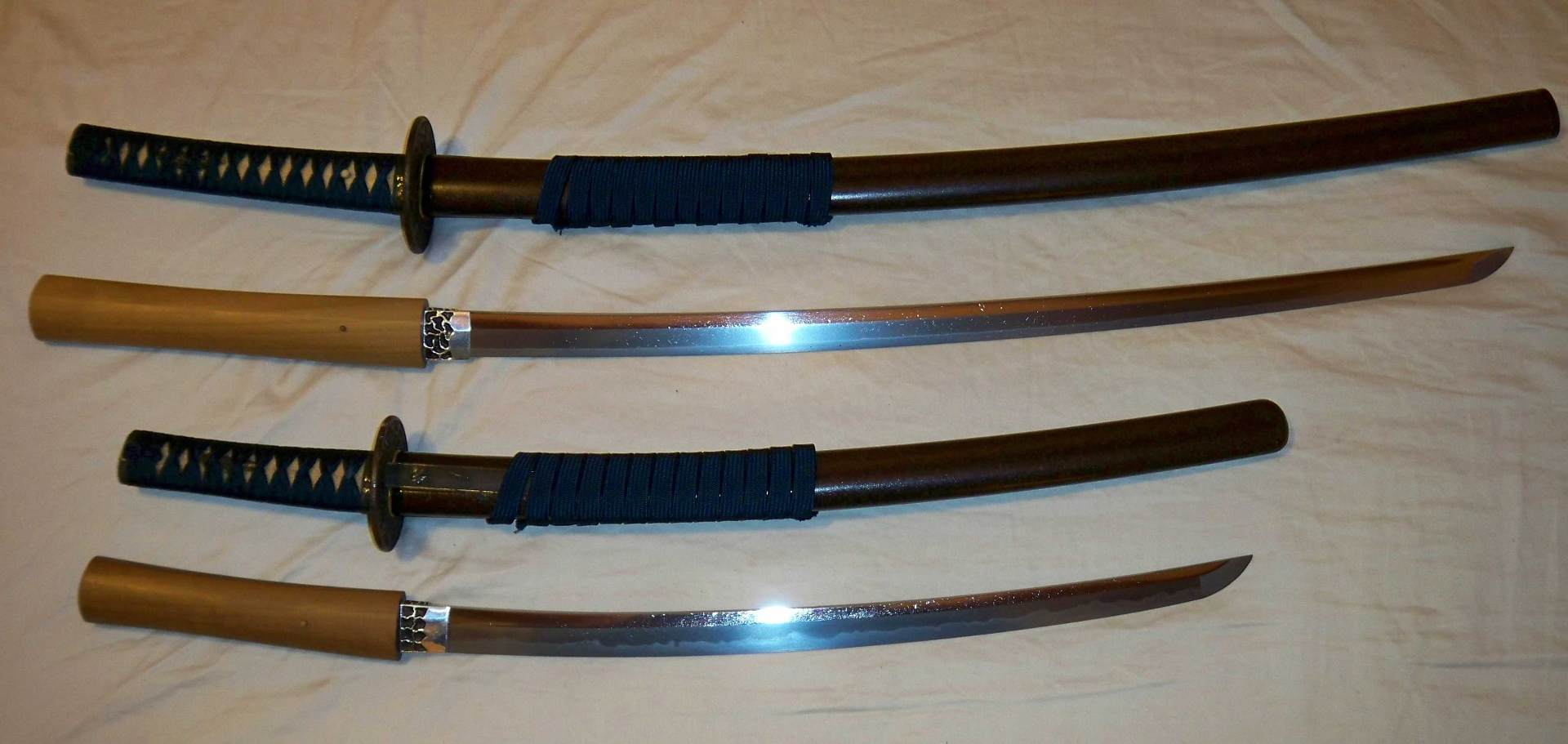 Antique Japanese (samurai) daisho consisting of matching koshirae, shirasaya, katana and wakizashi.